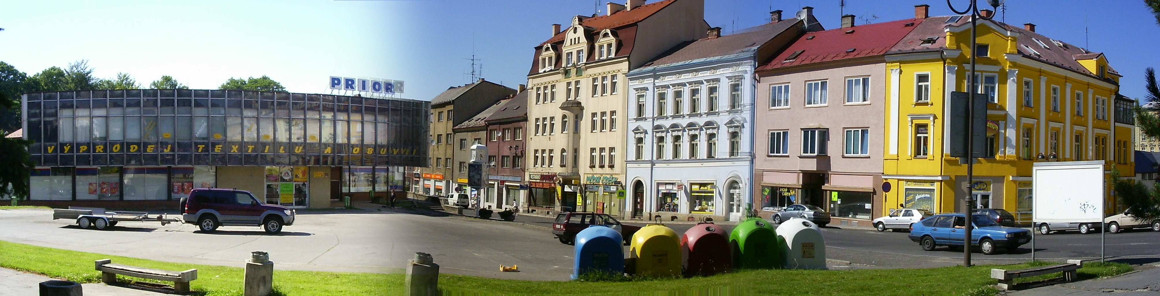 Panorama of Aš city center towards the north